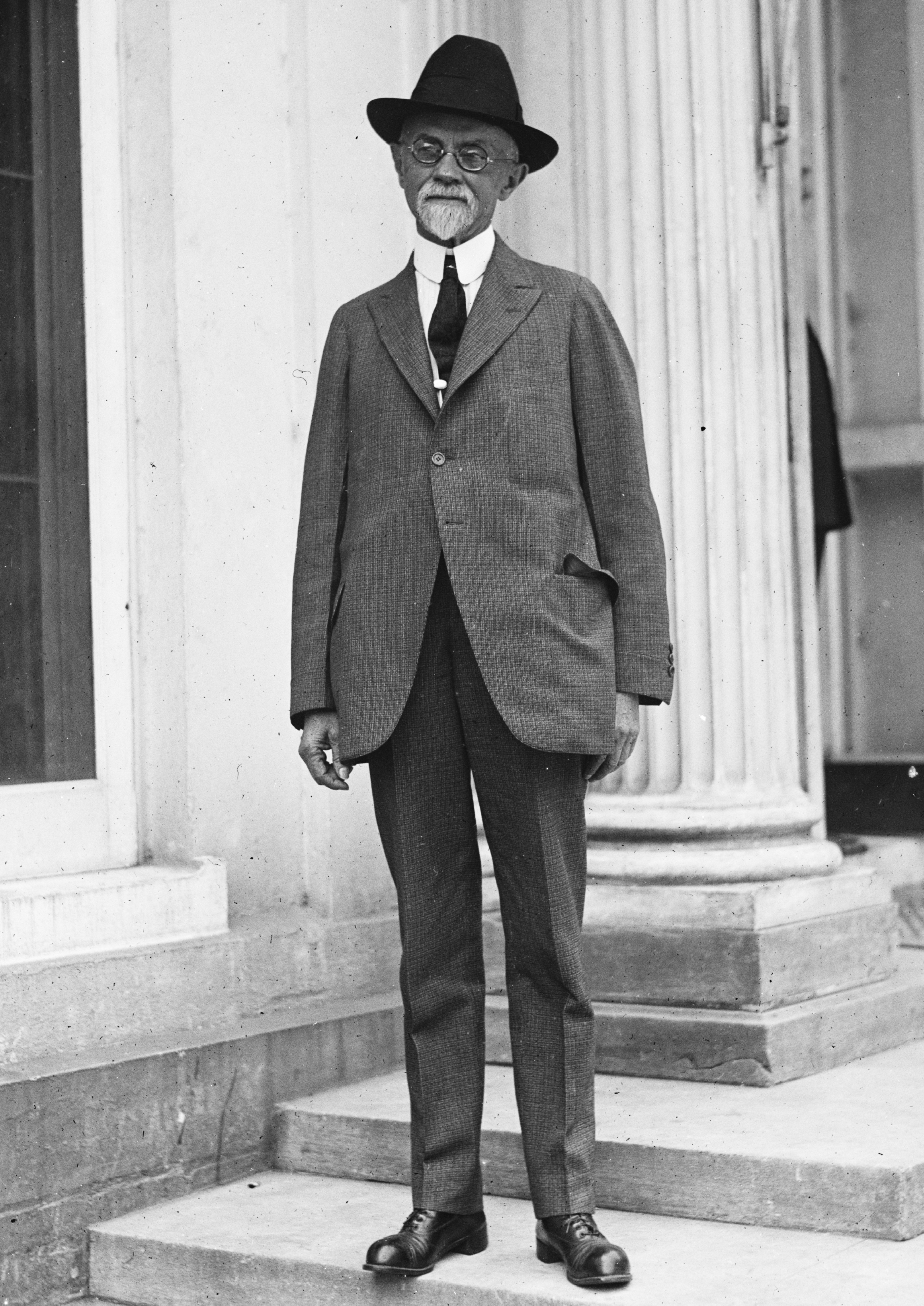 Charles E. Sawyer, personal physician to President Warren Harding